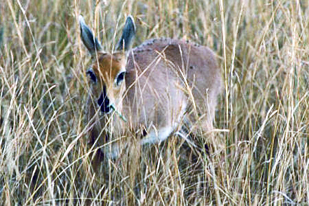 Female Steenbok (Raphicerus campestris)